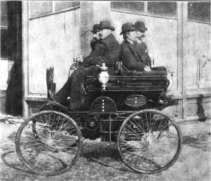 Photo of the 1895 Haynes-Apperson from an article in 'Outing' magazine entitled 'The Growth of the Automobile Industry in America' by David T. Wells. The caption reads: "The first car built by Haines and Apperson in 1894, containing Mr Haines, the Apperson brothers, and Mr. J.D. Maxwell." In fact, the car was built in 1895. From the Google books archive: Title Outing, Volume 51 Published 1908 Original from the University of California Digitized Jan 25, 2008